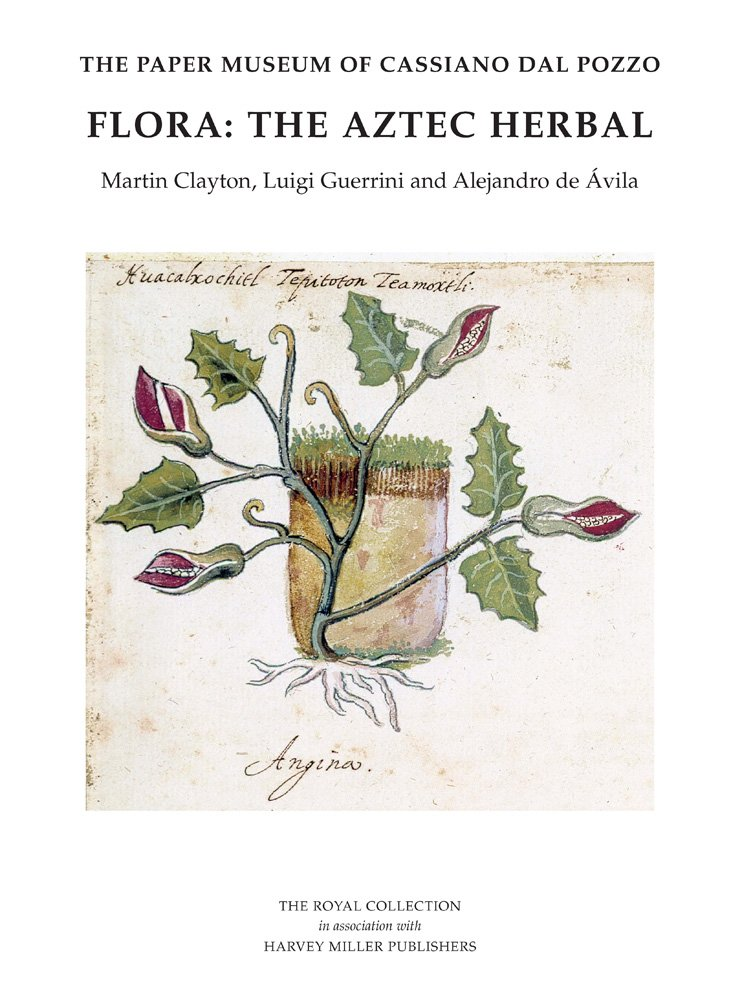 Cassiano dal Pozzo Flora The Aztec Herbal. The Paper Museum of Cassiano dal Pozzo; a catalogue raisonné. Drawings and prints in the Royal Library at Windsor Caste. The British Museum, The Institute of France and other collections.